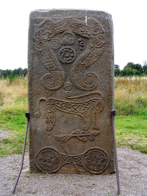 Pictish Stone at Brodie